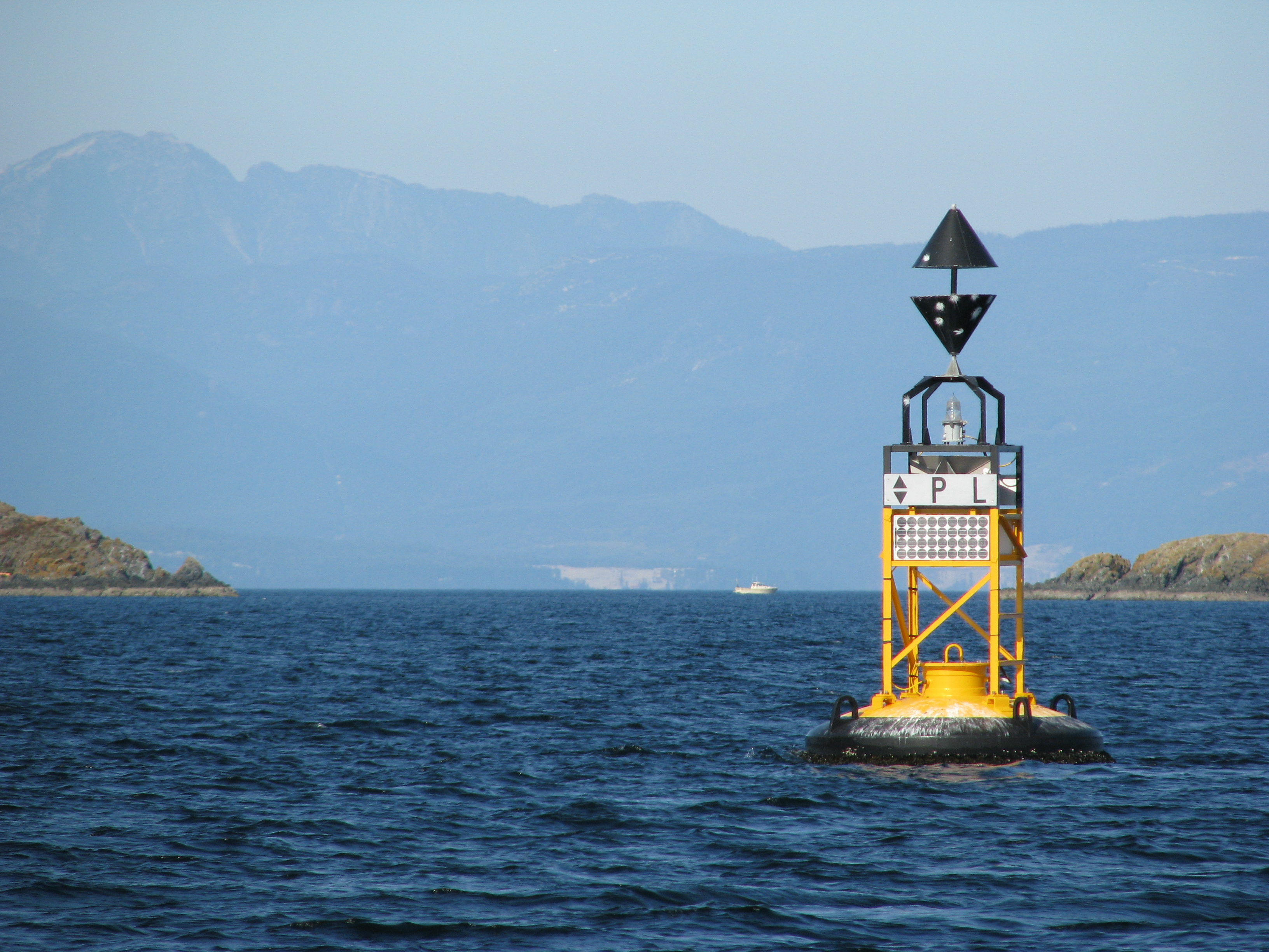 Horswell Rock East Cardinal light buoy PL at 49d 12m 43.3s N, 123d 55m 57.3s W (Black, yellow and black). Off Departure Bay, Nanaimo, British Columbia. Five Fingers Islands in near background, Sechelt on Sushine Coast across Georgia Strait in distant background. The characteristics of this aide indicate that the safe water is to the east of the buoy.